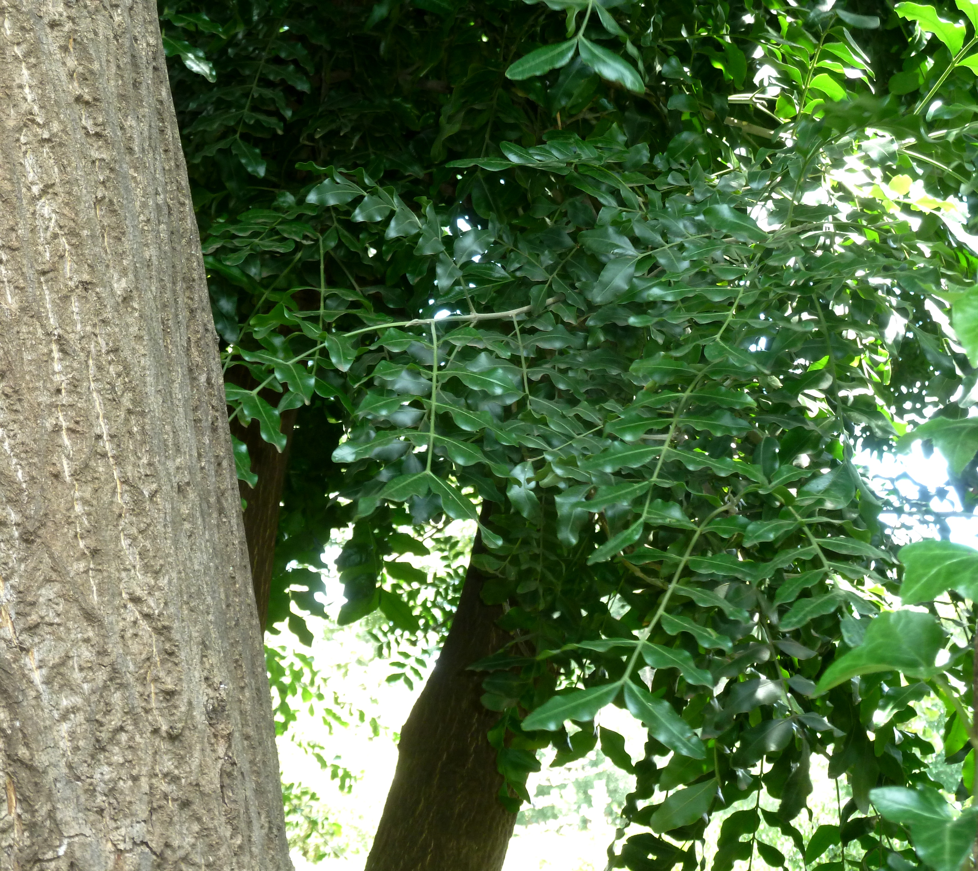 Trunk and foliage of Sneezewood in the Manie van der Schijff Botanical Garden, University of Pretoria